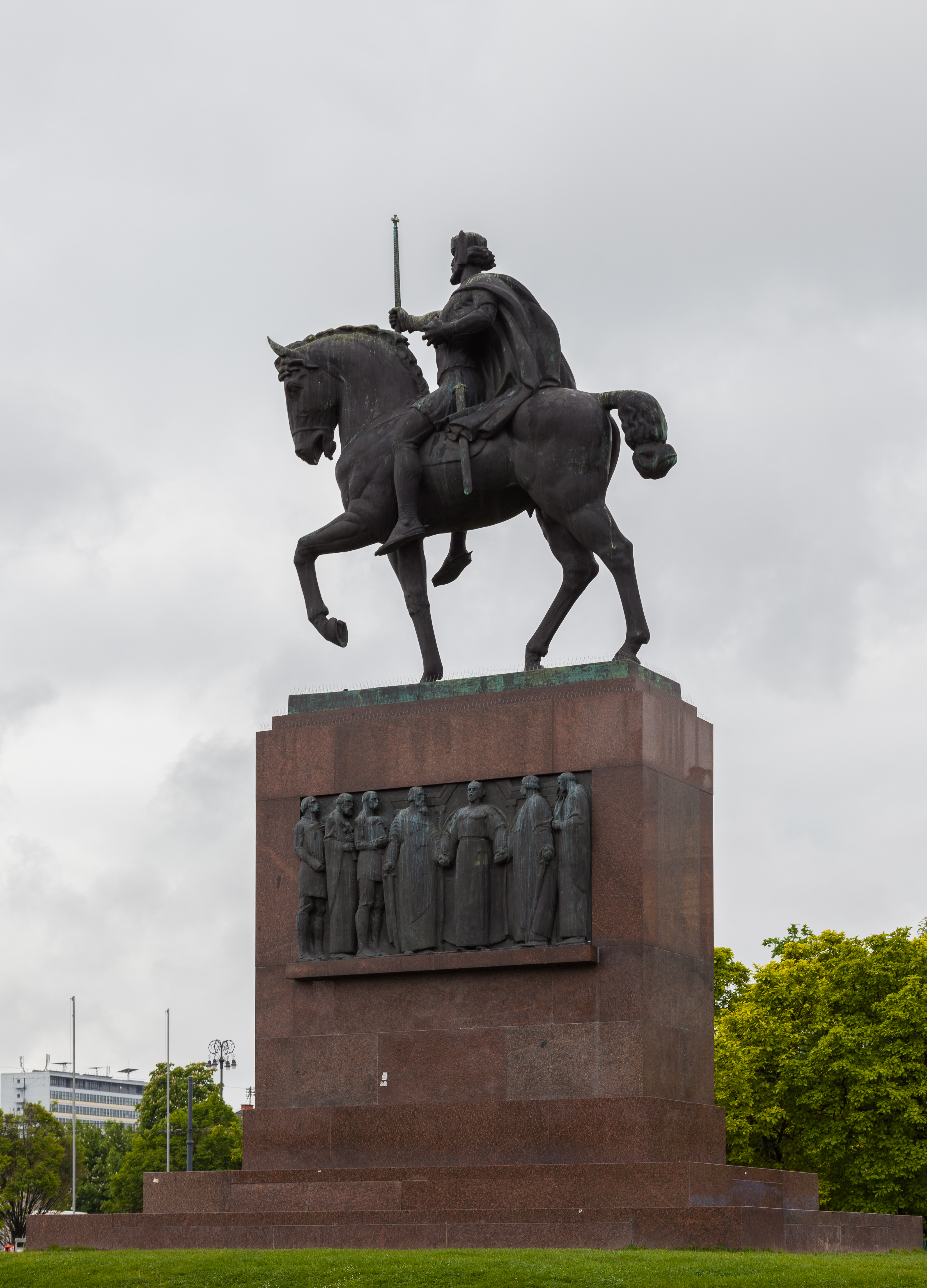 Statue of King Tomislav of Croatia, Zagreb, Croatia